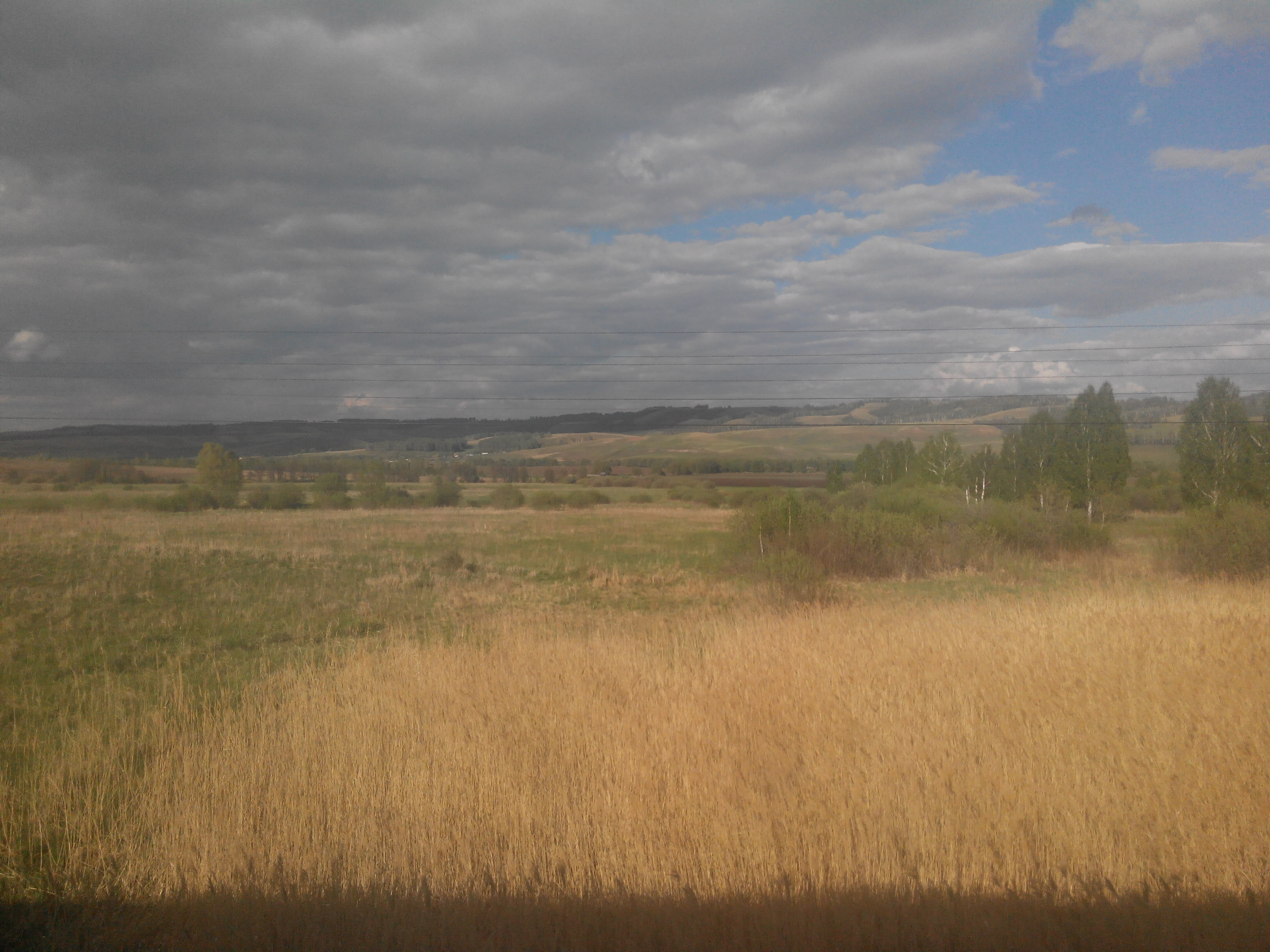 Bugulma-Belebey Upland